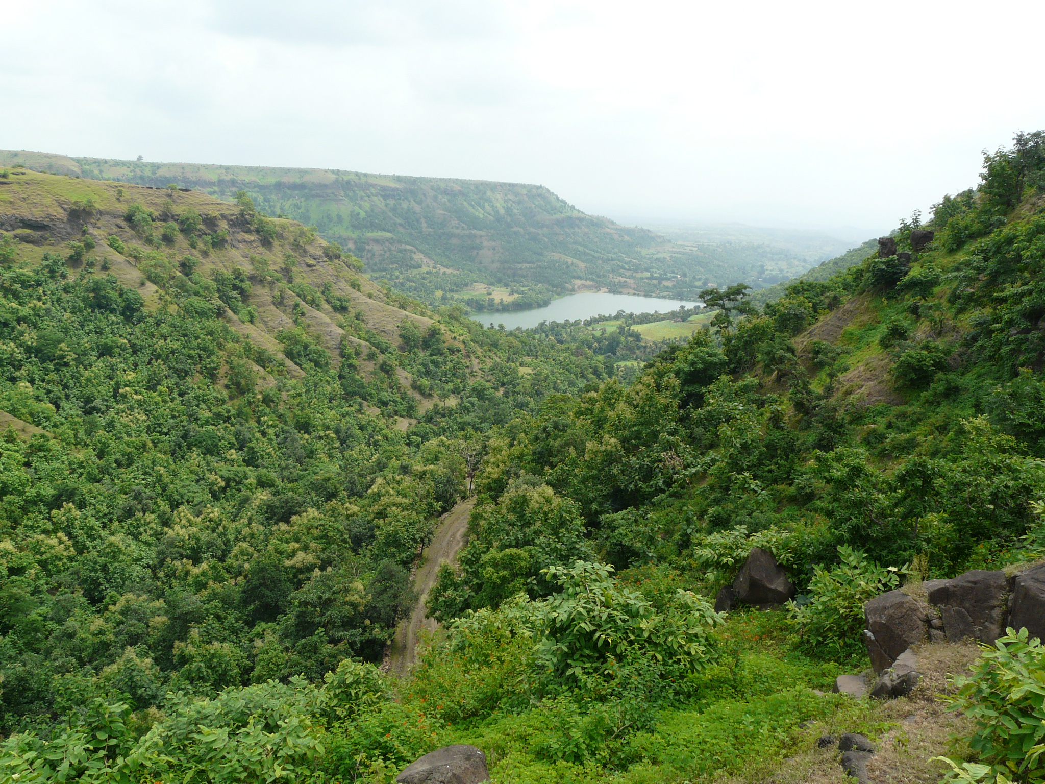 View of valley between Malwa and Mandu plateaus.